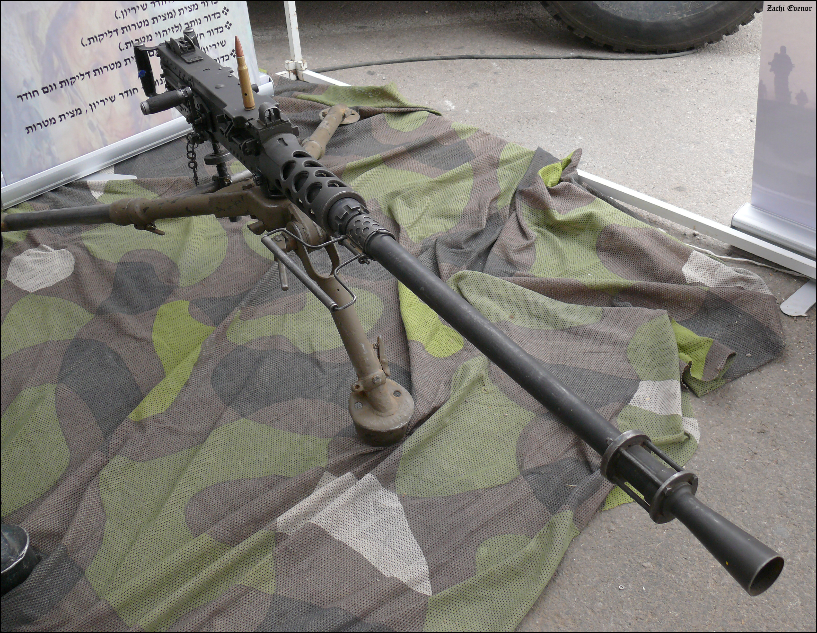 IDF M2 Browning 0.5 (probably M2HQCB) heavy machine-gun